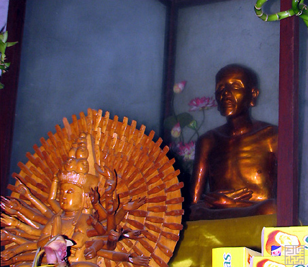 Mummy of Chuyet Chuyet, 17th century